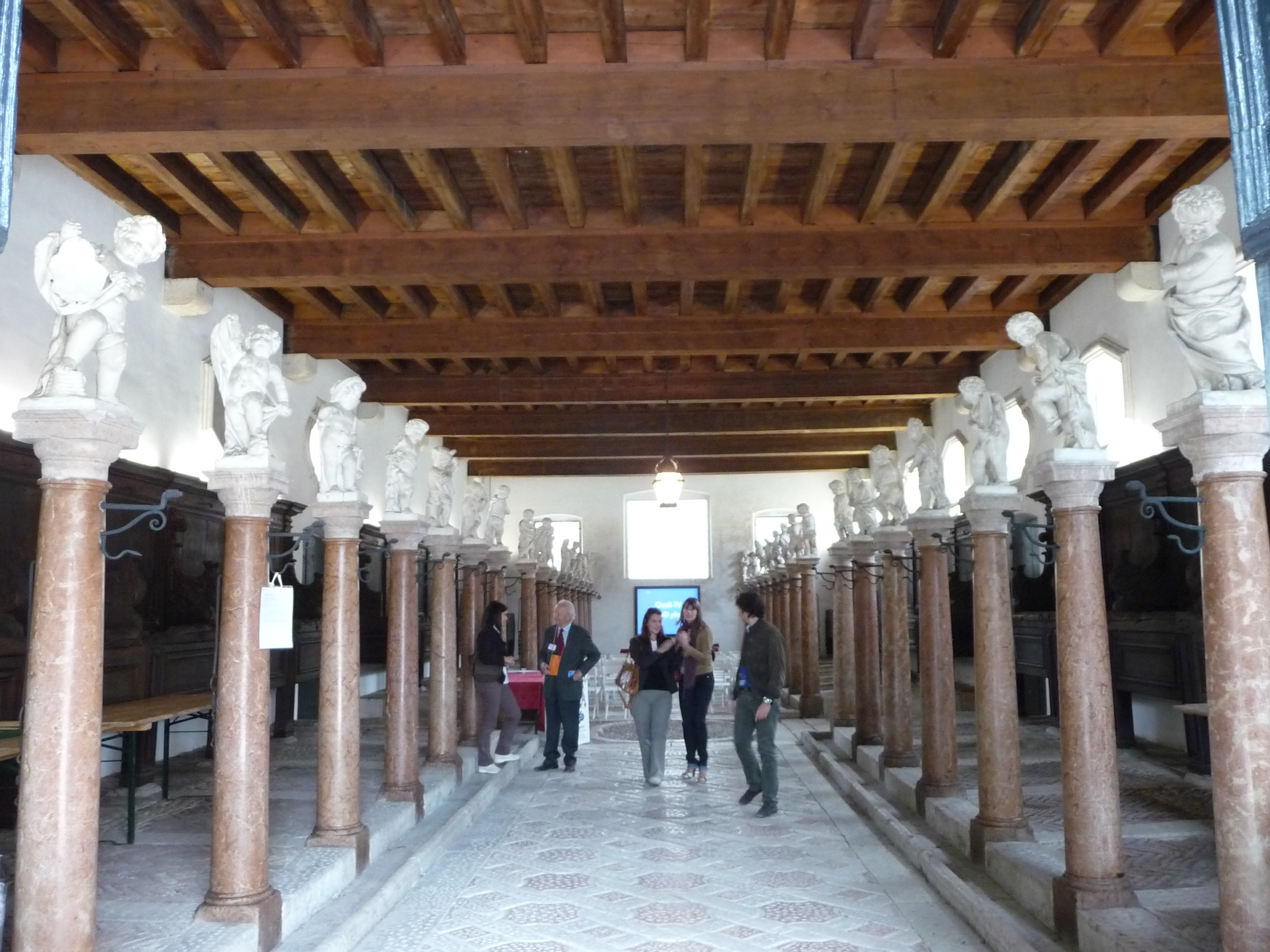 The Villa-Castle Porto Colleoni of Thiene in province of Vicenza.